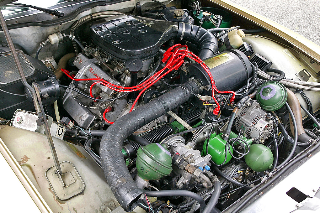 Citroën SM C114-03 Euro Spec Engine